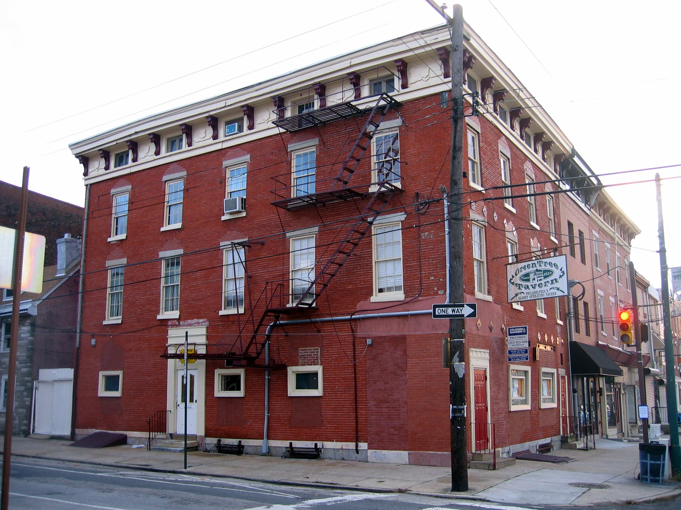 Established in 1849 with the current building constructed in 1913, the Green Tree Tavern is located at 260-262 East Girard Avenue in the Kensington neighborhood of Philadelphia. This website provides a history of the Green Tree Tavern also known as the Marlborough Inn.